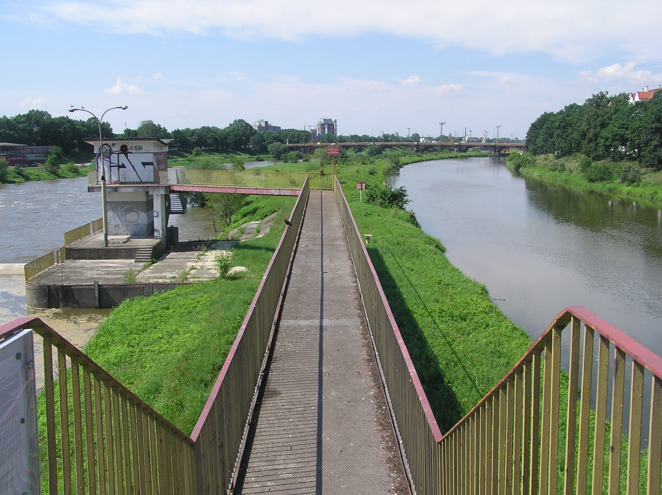 Wrocław, Oder river, Różanka weir